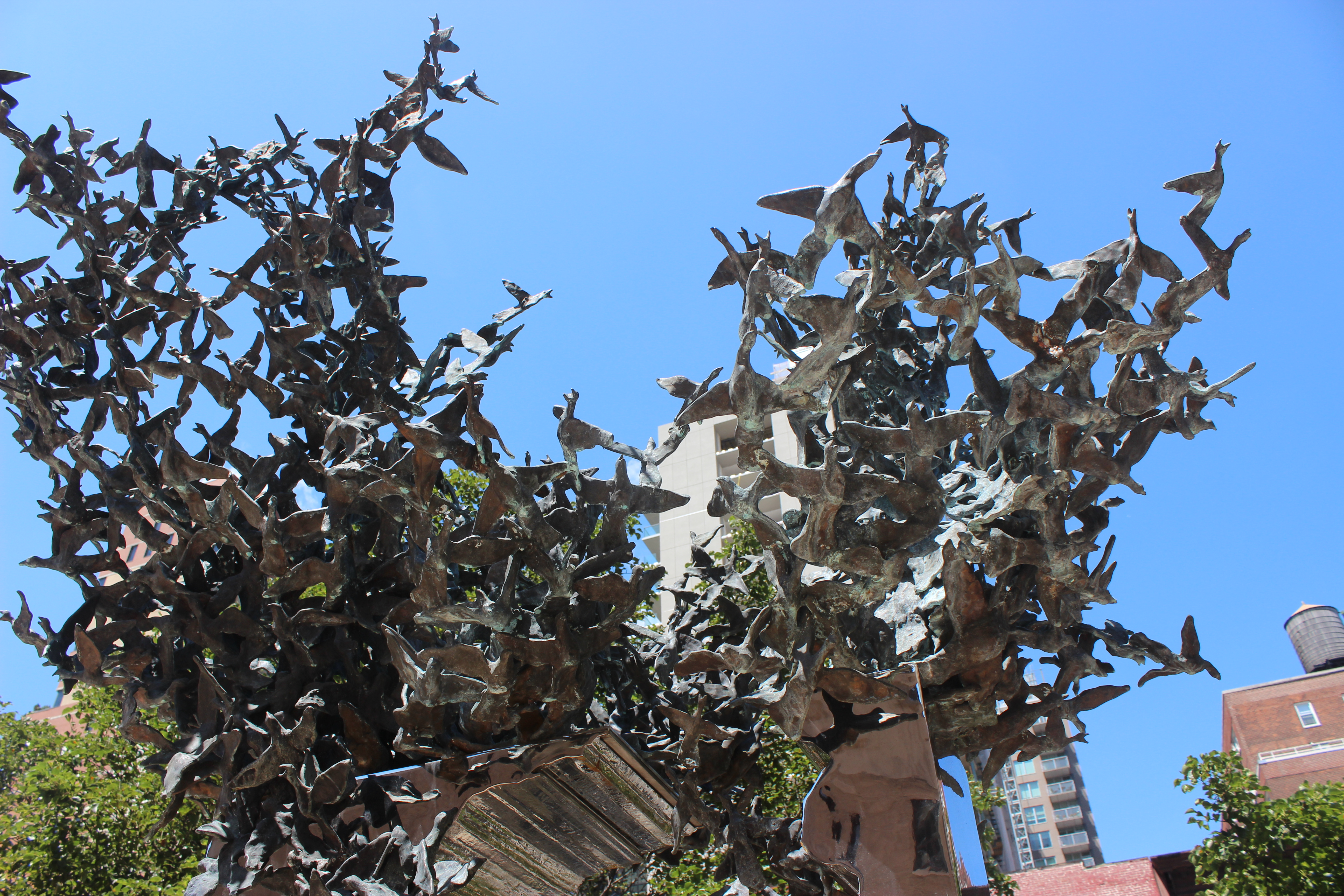 Migrations sculpture (Michael Aram)